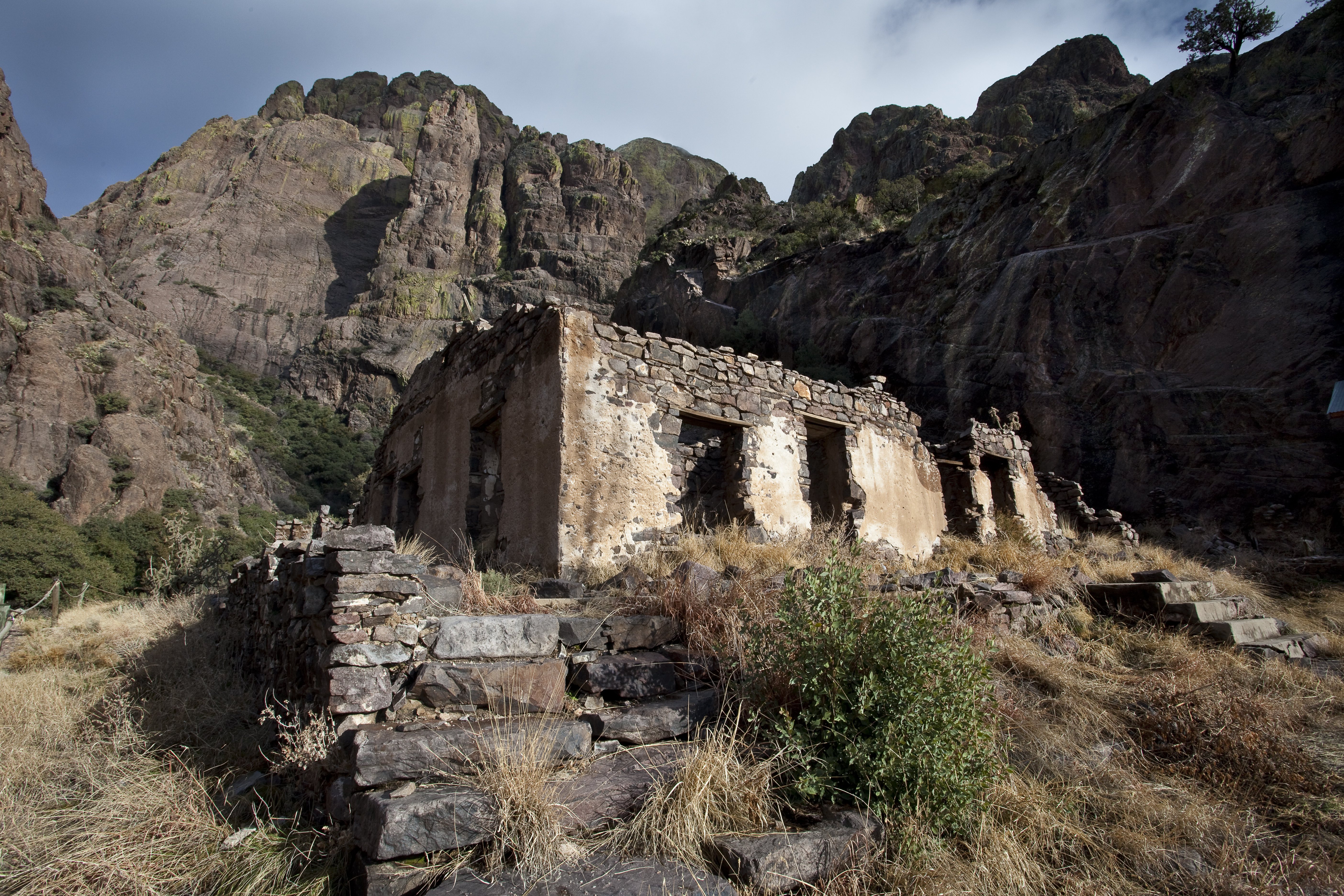 The Organ Mountains WSA is located in south-central New Mexico on the eastern edge of Las Cruces. The Organ Mountains range from 4,600 to just over 9,000 feet, and are so named because of the steep, needle-like spires that resemble the pipes of an organ. Alligator juniper, gray oak, mountain mahogany and sotol are the dominant plant species here, but in the upper elevations stands of ponderosa pine may be found. Seasonal springs and streams occur in canyon bottoms, with a few perennial springs that support riparian habitats. Wildlife includes desert mule deer, mountain lion, a variety of song birds, and a race of the Colorado chipmunk. The WSA includes the Baylor Pass National Recreation Trail. Learn more: Photo: Bob Wick, BLM California